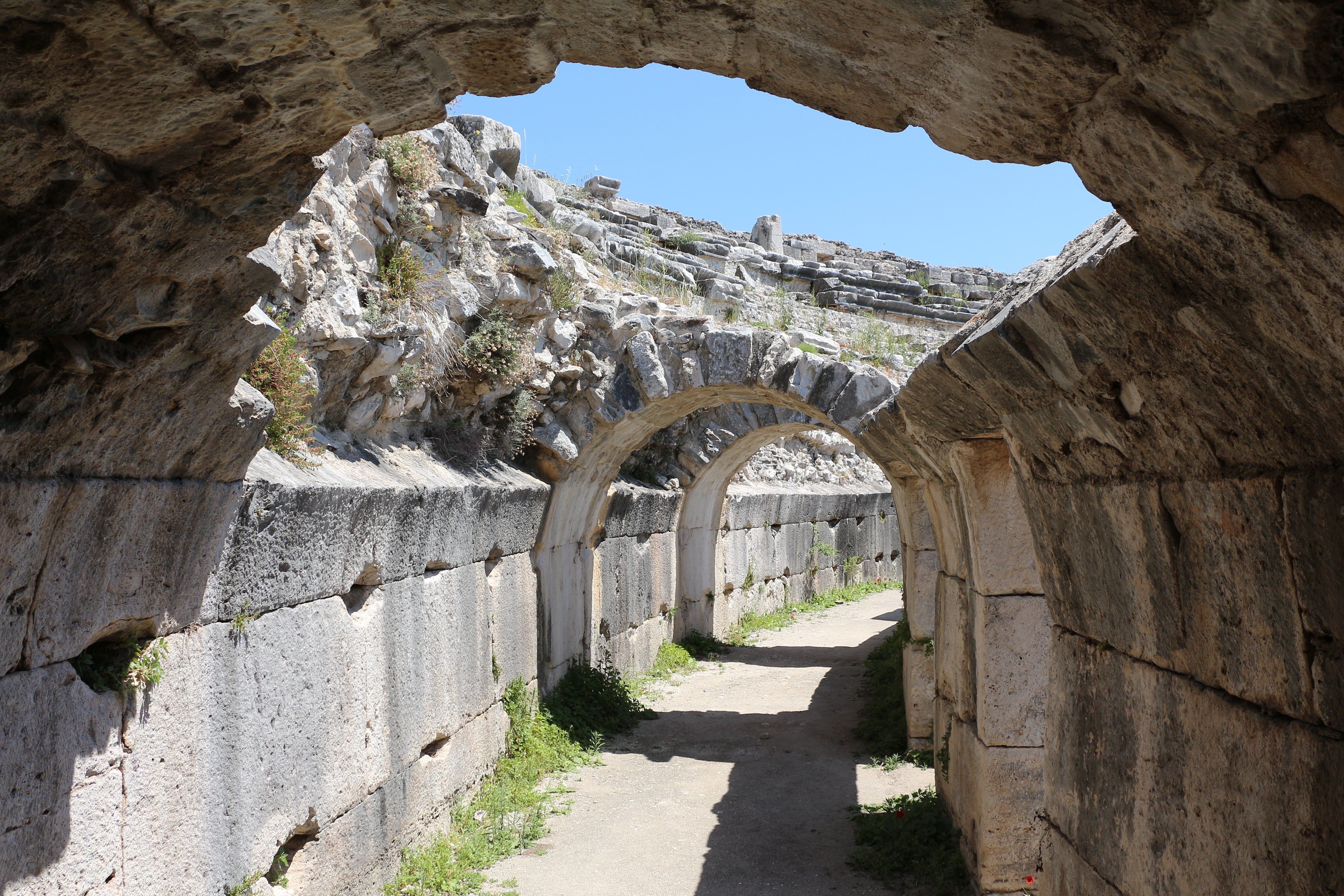 Diazoma in the Ancient Greek theatre in Miletus, Turkey